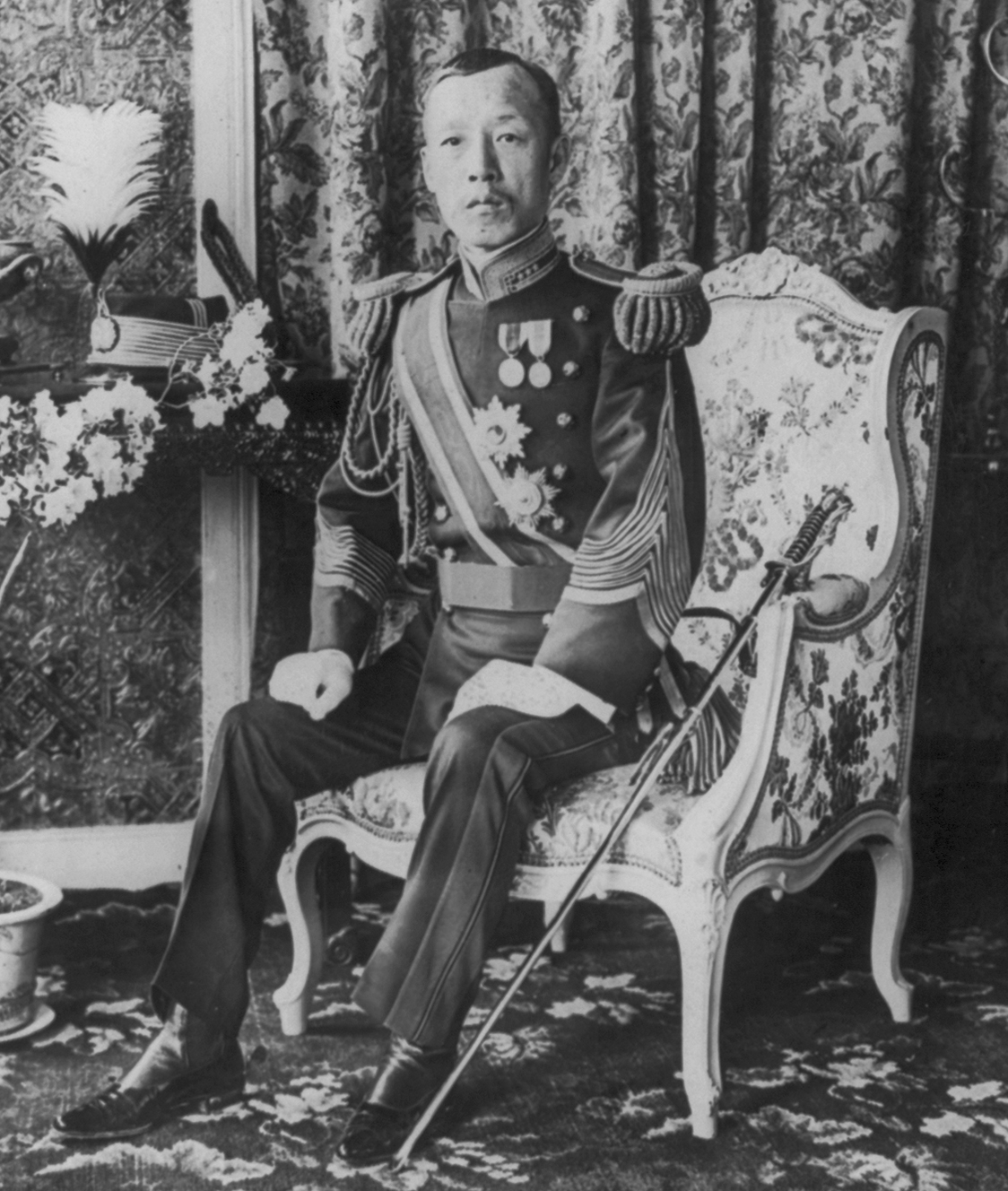 Min Yeong-hwan Portrait